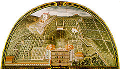 Lunette depicting the Palazzo Pitti, Firenze. Lunette from Museo Firenze com'era, Florence. Painted 1599, thus in public domain by virtue of age